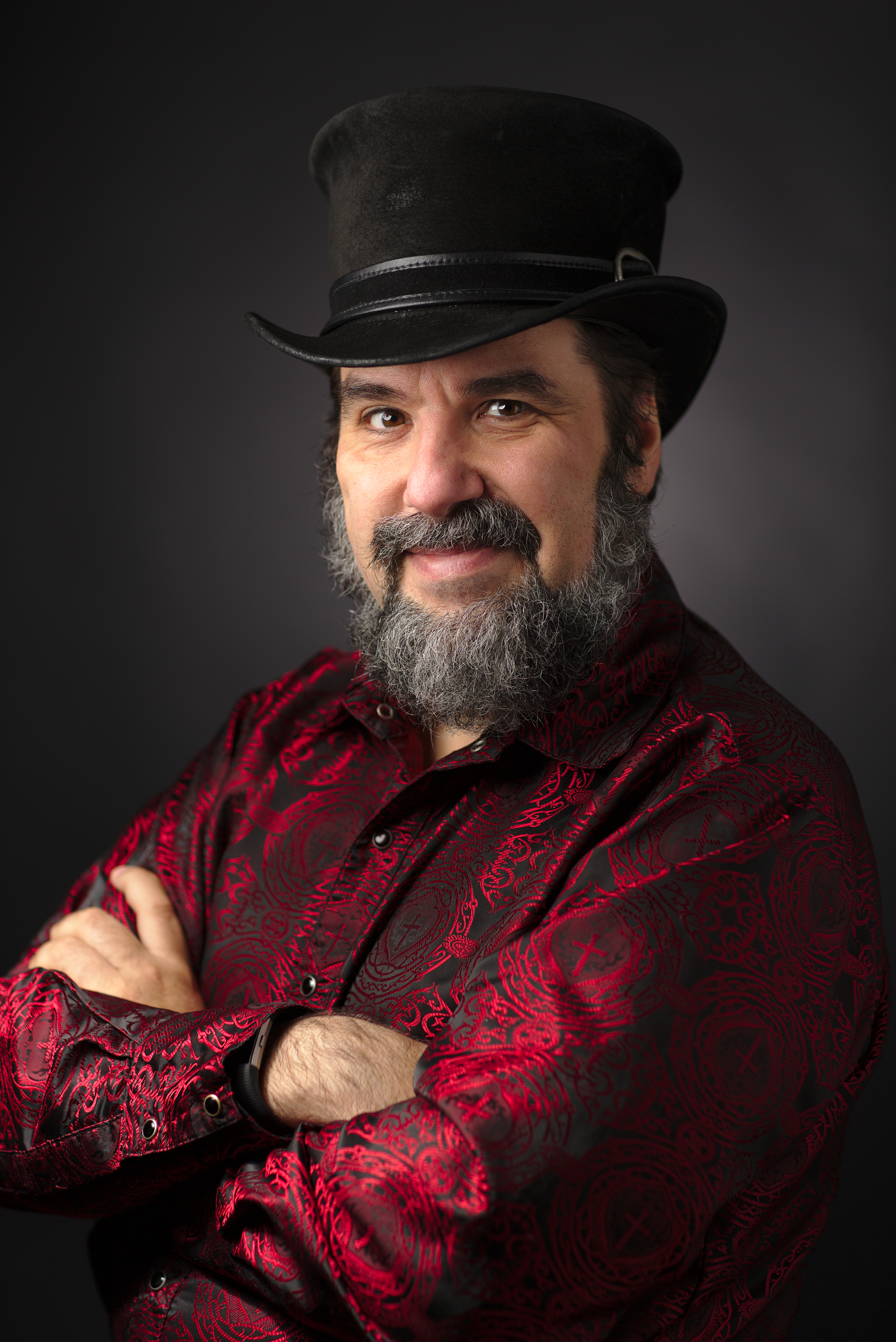 Portrait of Jason Scott taken in the Netherlands.